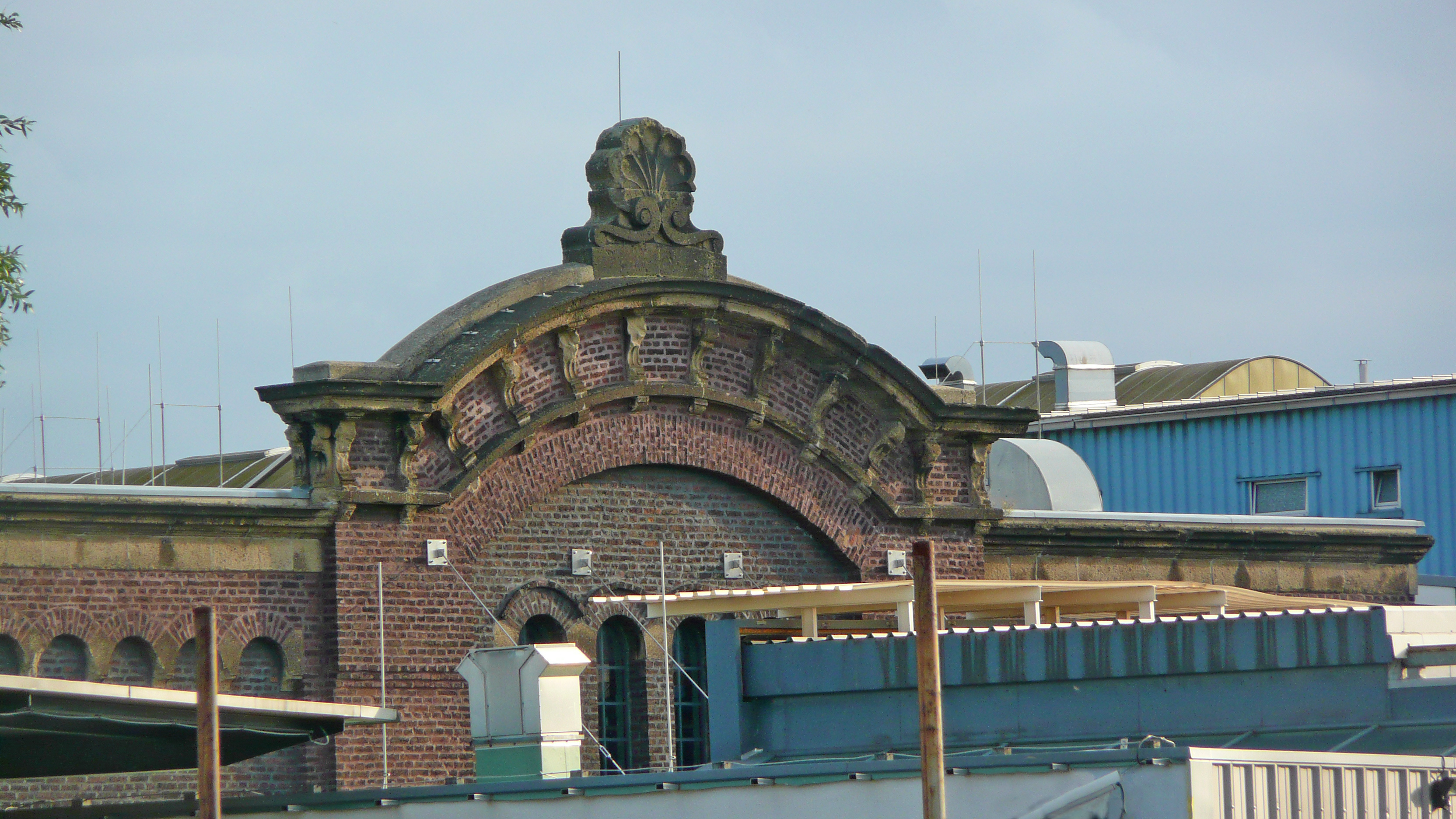 Building in Aachen, Liebigstr.